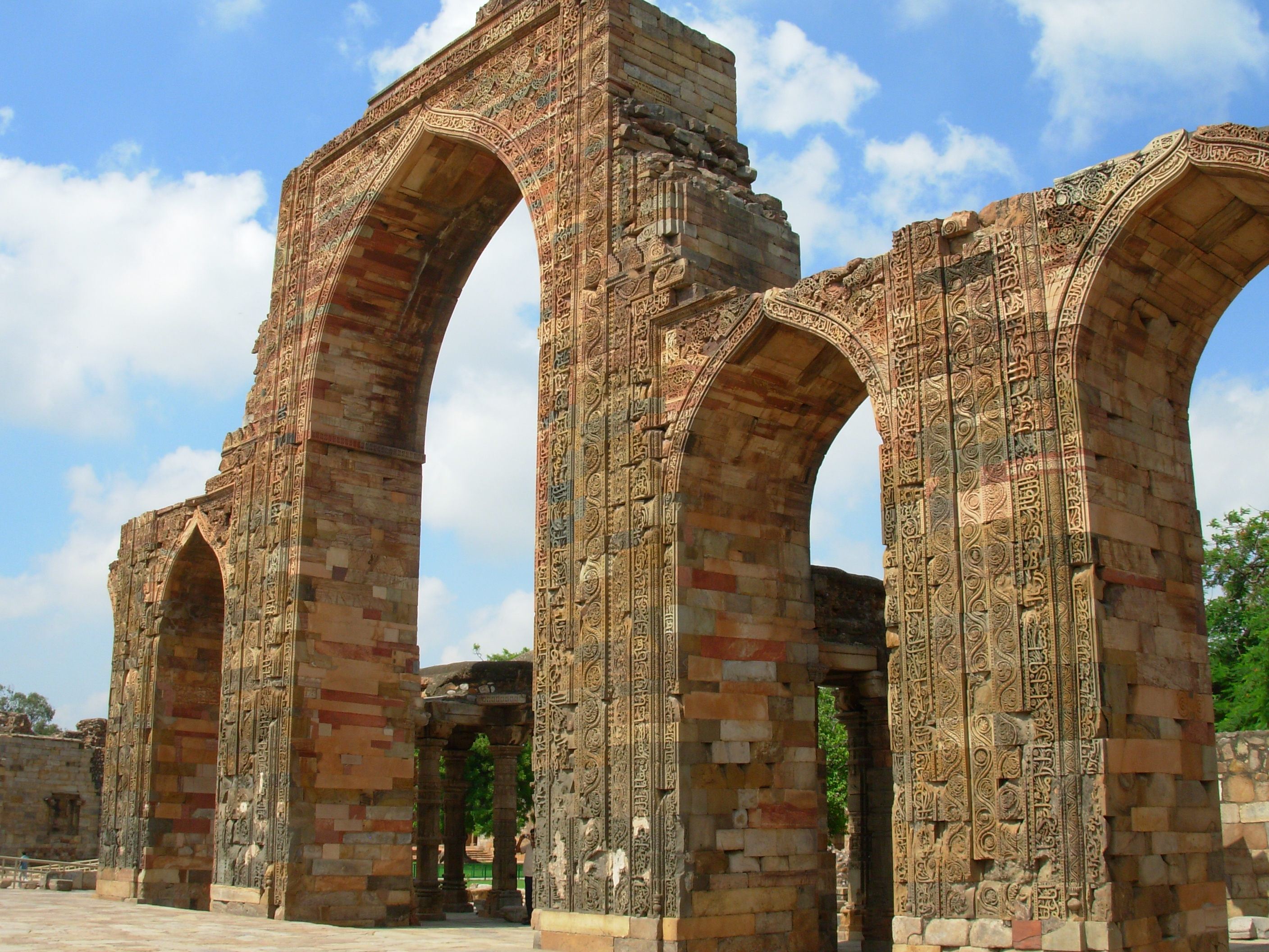 Corbelled arched screen, Quwwat ul-Islam mosque, Qutub Minar complex, Delhi.